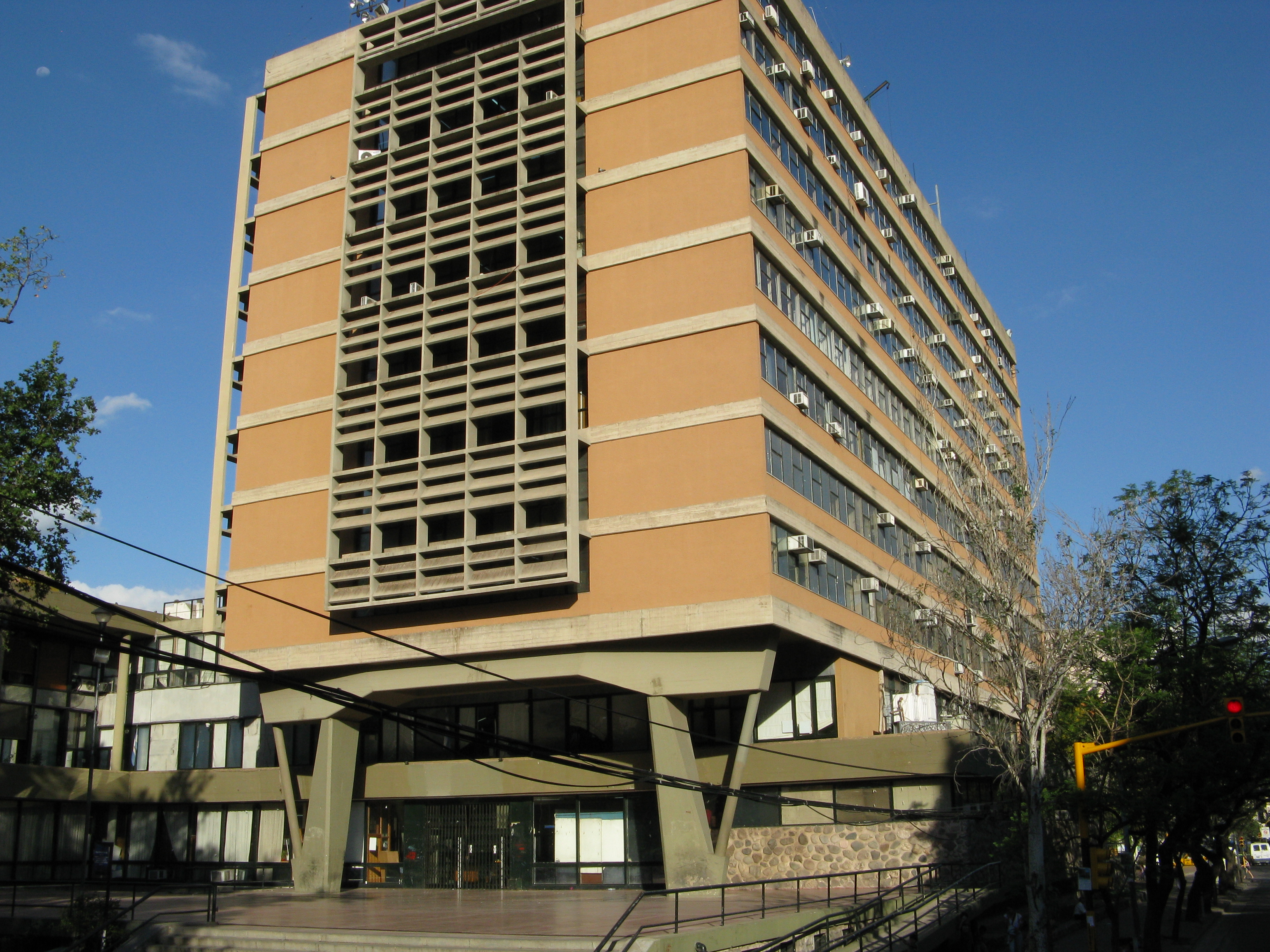 "Palacio 6 de julio" ("july 6th palace"), seat of local government. Cordoba, Argentina.